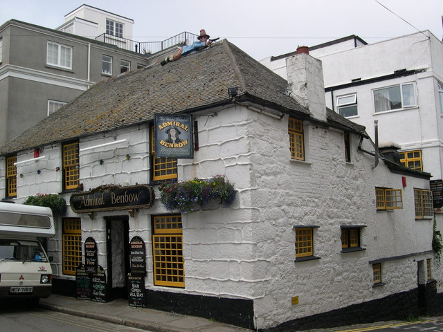 The Admiral Benbow Inn Note the figure on the roof